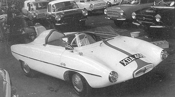 Photograph of the prototype Meadows Friskysprint inside the Meadows factory in Wolverhampton. A variety of Frisky cars can be seen in the background.